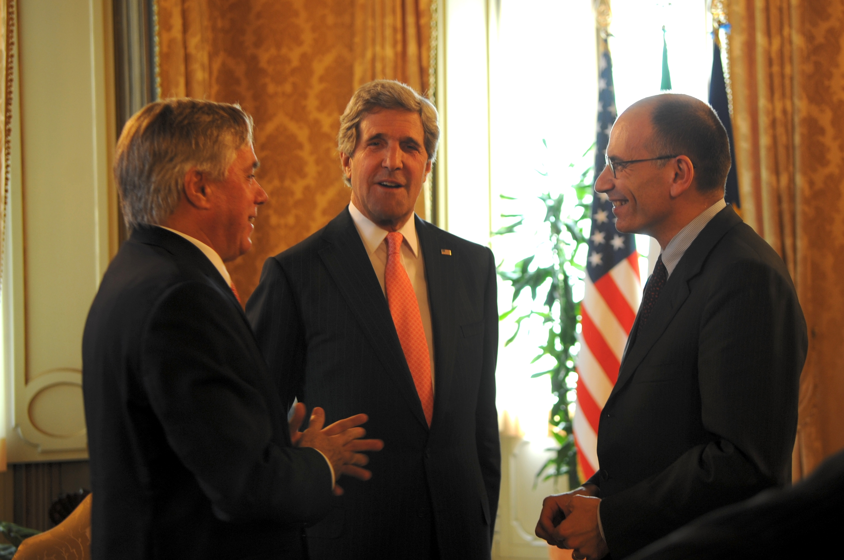 U.S. Ambassador to Italy David Thorne and U.S. Secretary of State John Kerry speak with Italian Prime Minister Enrico Letta at Palazzo Chigi in Rome, Italy, on May 9, 2013. [State Department photo/ Public Domain]